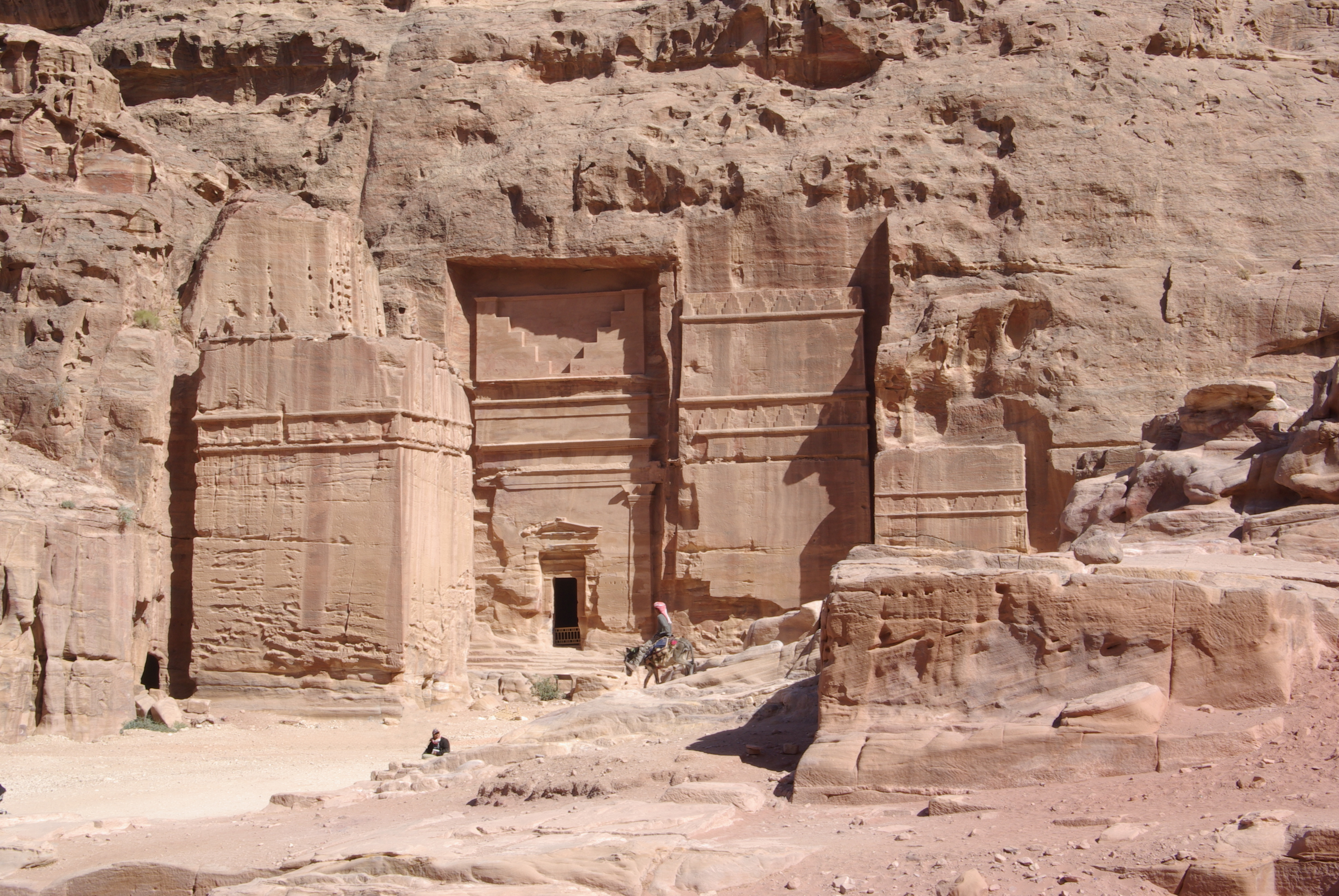 Petra, facades in the outer siq